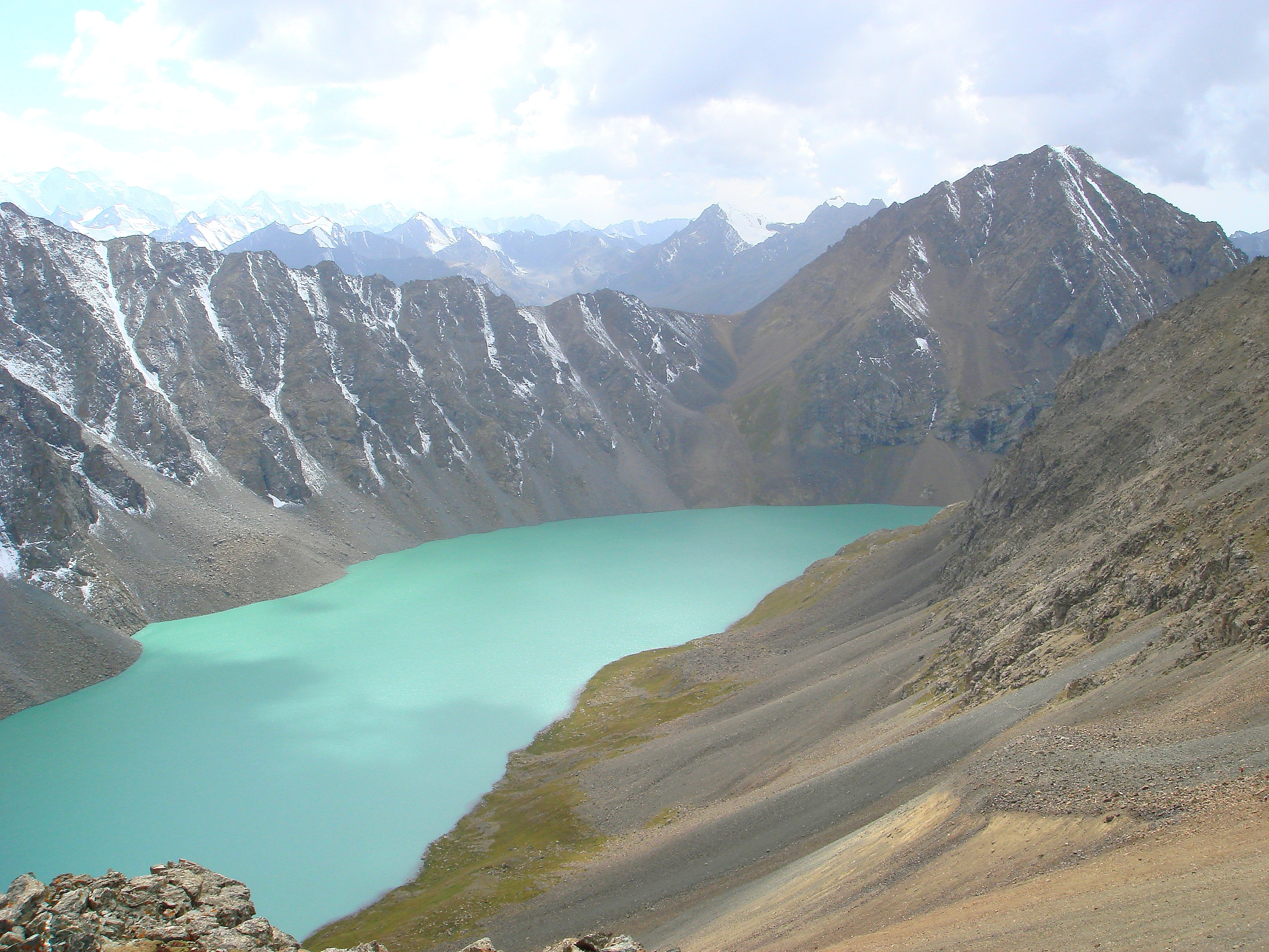 Lake Ala-Köl viewed from the pass having the same name (Issyk Kul Province, Kyrgyzstan).